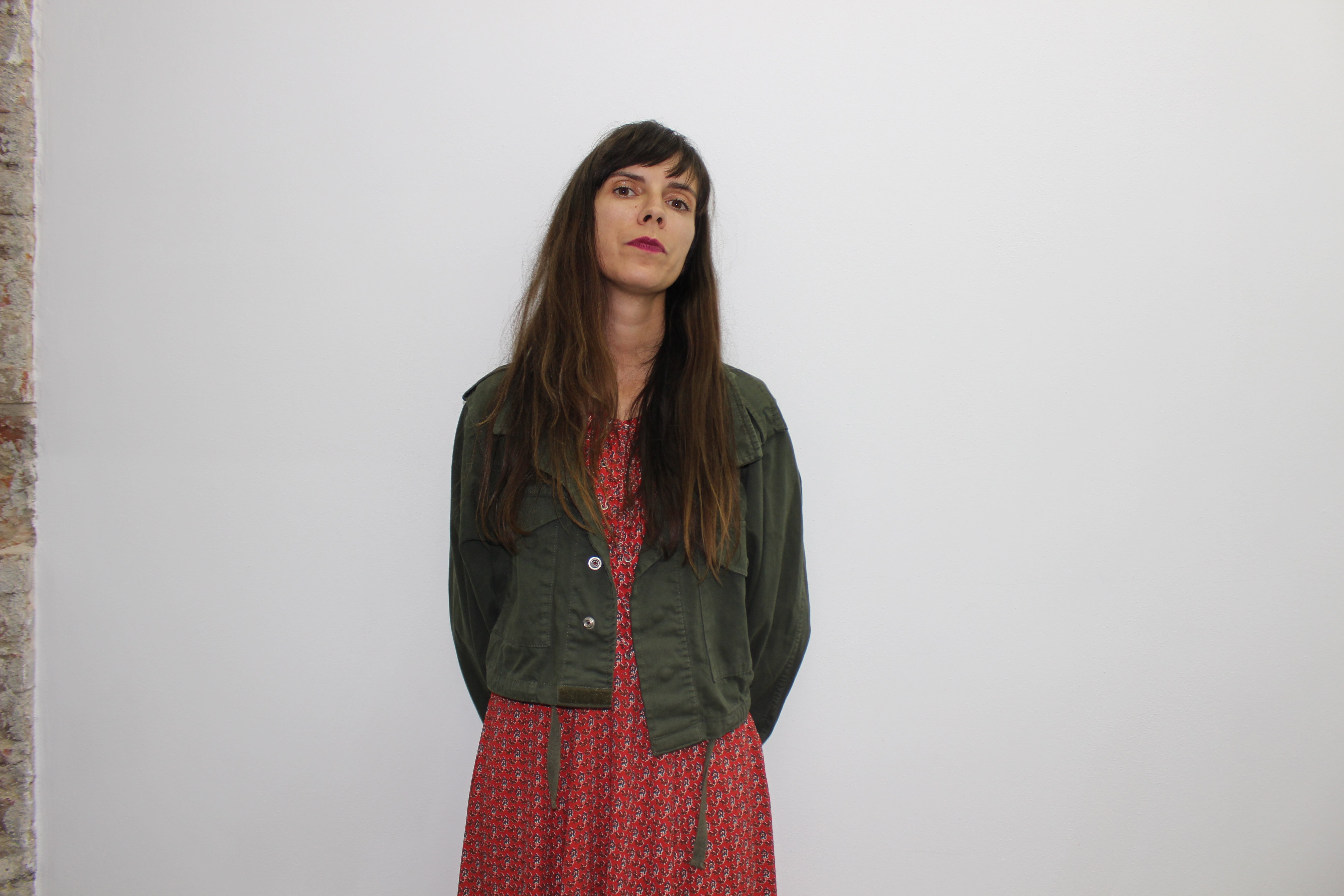 Hana Qena